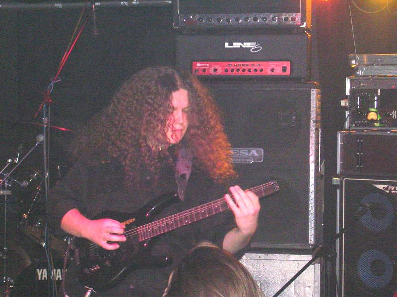 Dies Irae band, 2.02.2005, Wrocław, "Diabolique", The Ultimate Domination Tour 2005